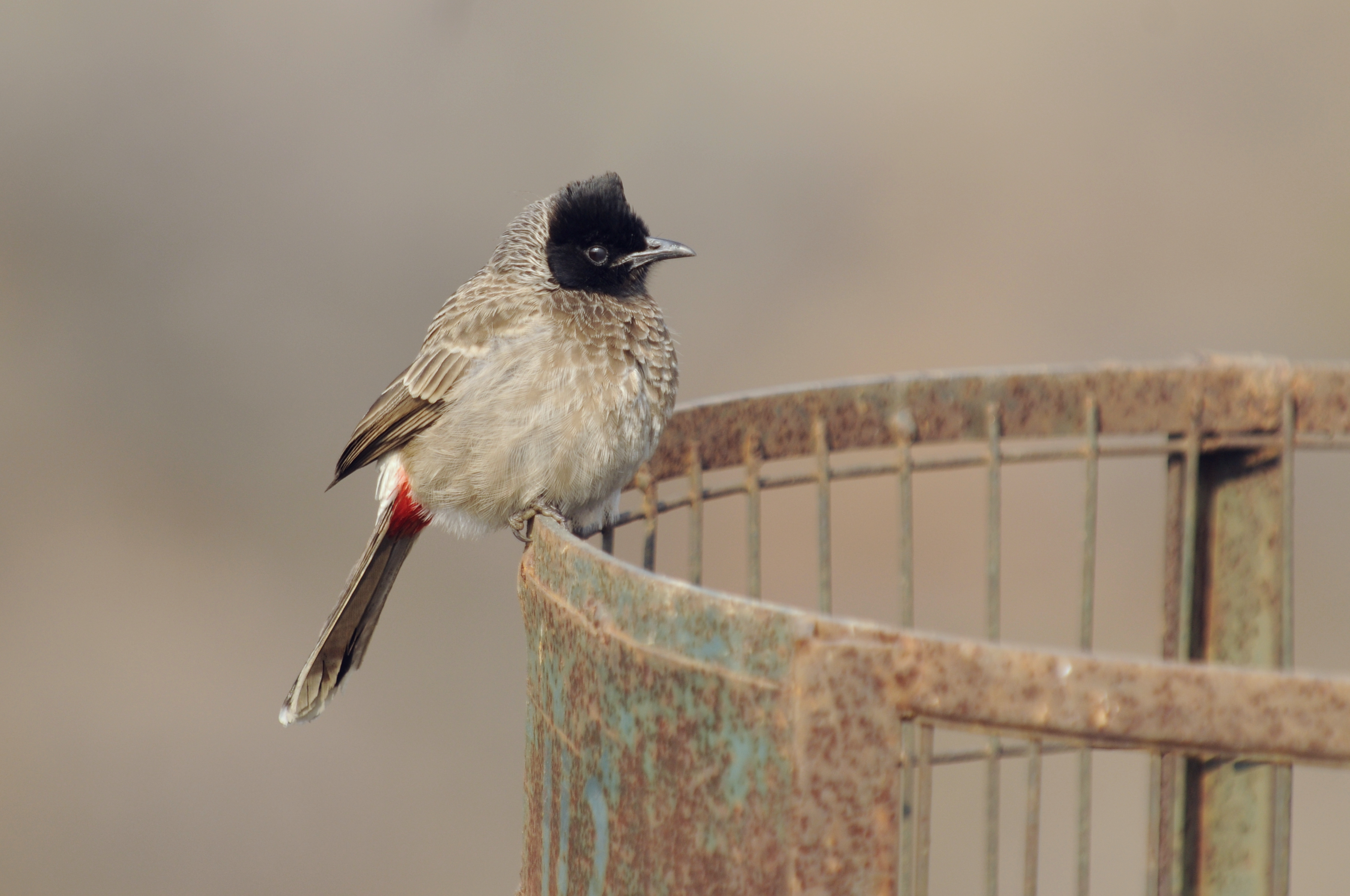 Red-vented Bulbul in the Aravalli Biodiversity Park Gurgaon, Haryana, India